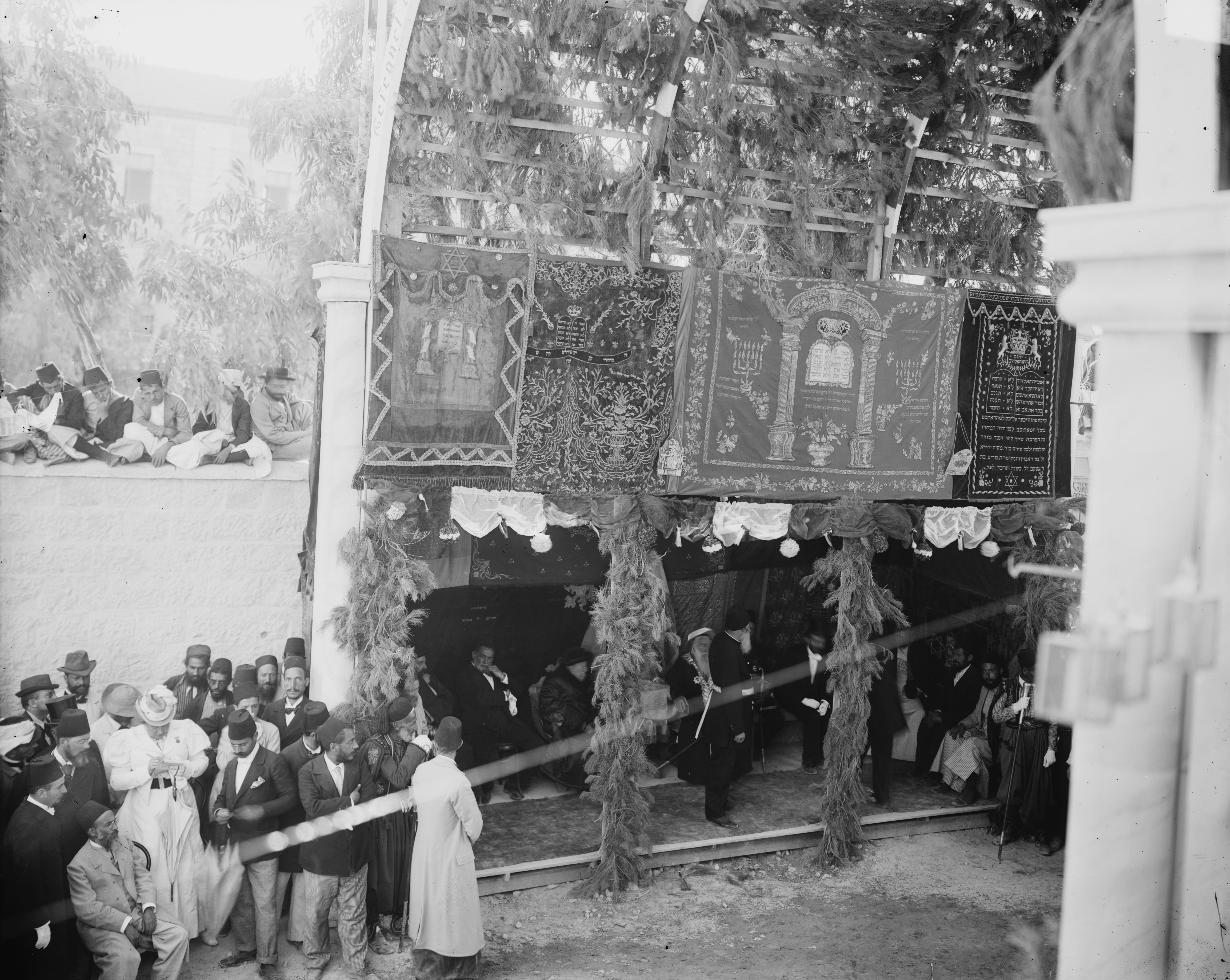 State visit to Jerusalem of Wilhelm II of Germany in 1898. Emperor and Empress. Interior of the Jewish arch, where Jewish community leaders await the arrival of the royal party.